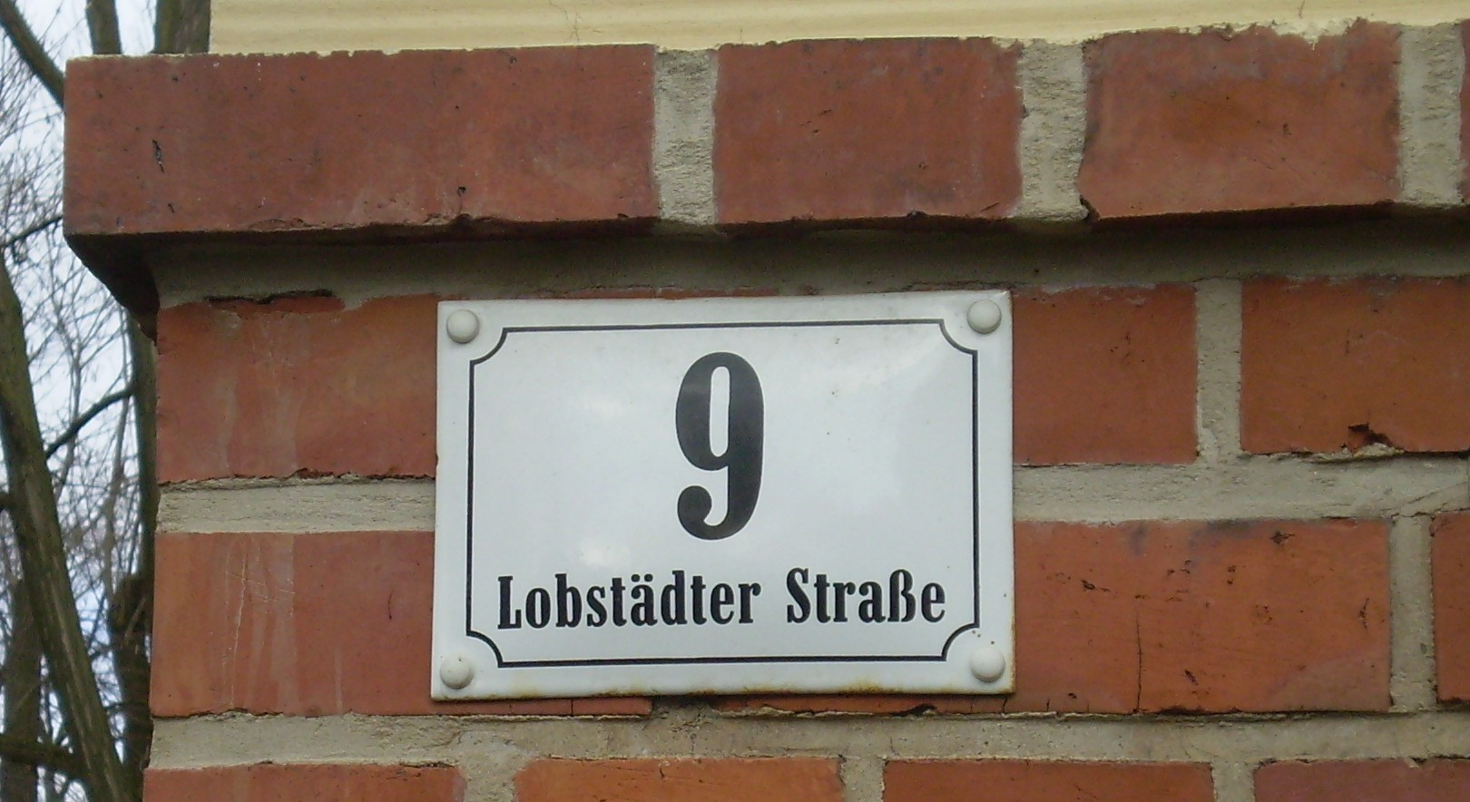 House number in Leipzig, Germany